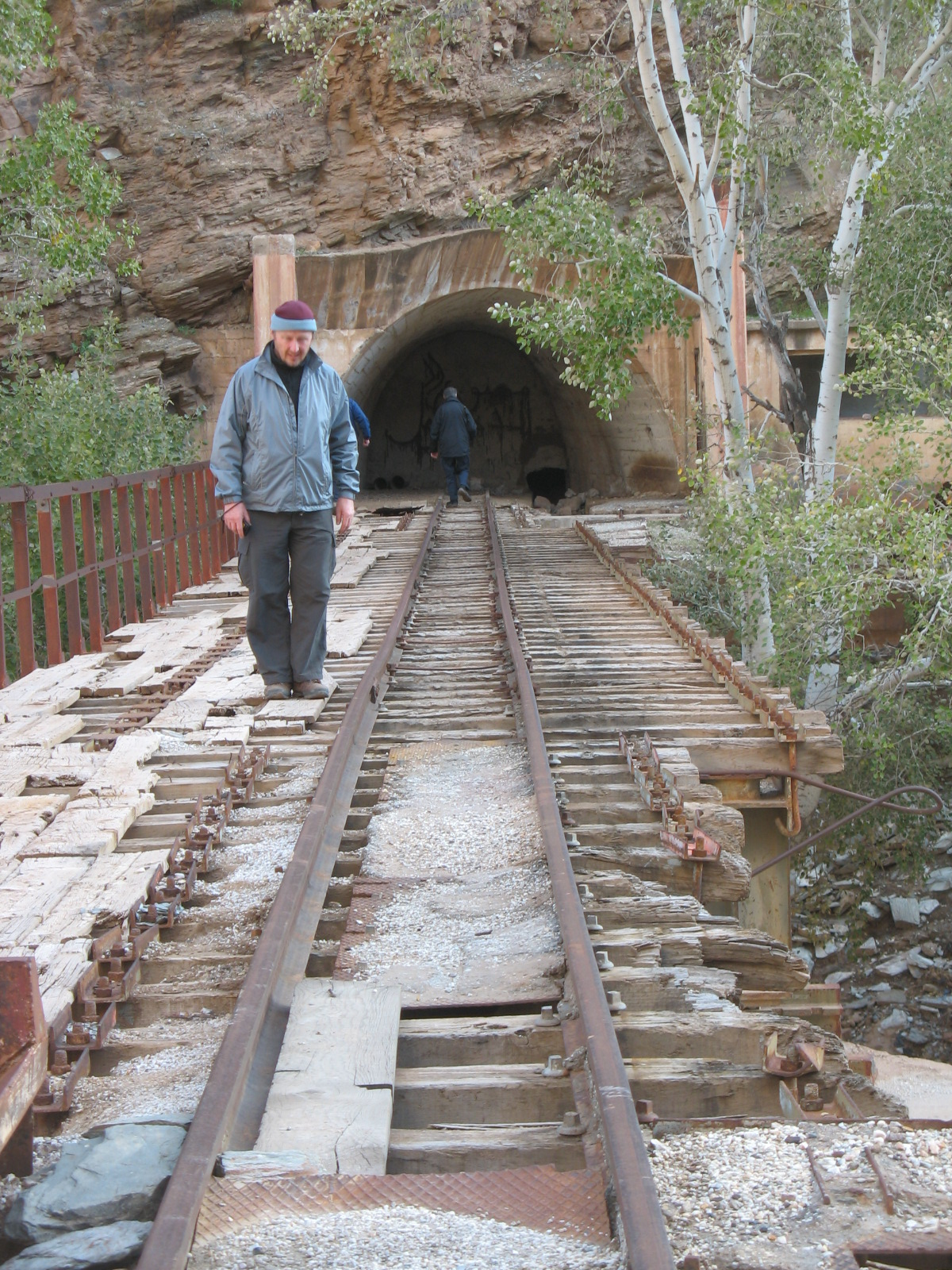 600mm. gauge rail bridge linking mine entrances on opposite sides of the narrow valley of the Oued Mouloula river at the abanodoned silver-lead mines of El Ahouli near Midelt, Morocco, with a discharge point. Photographer: Bob Rainbow, 4th November 2008.